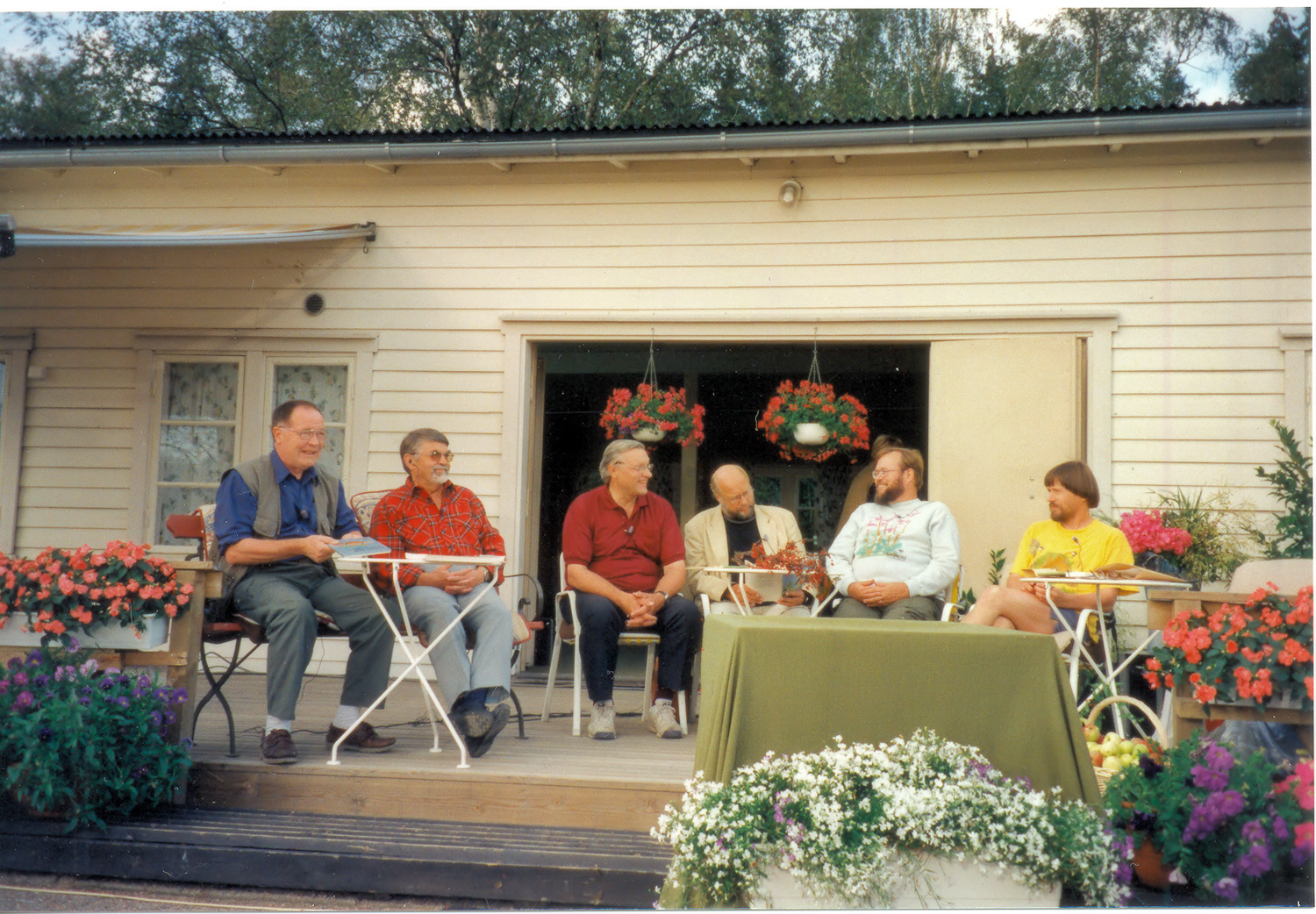 The filming of the tv program The Evening of Nature in Käpylä, Helsinki in August 2000